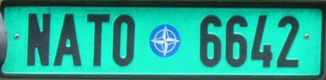 License plate of a NATO vehicle in Sarajevo